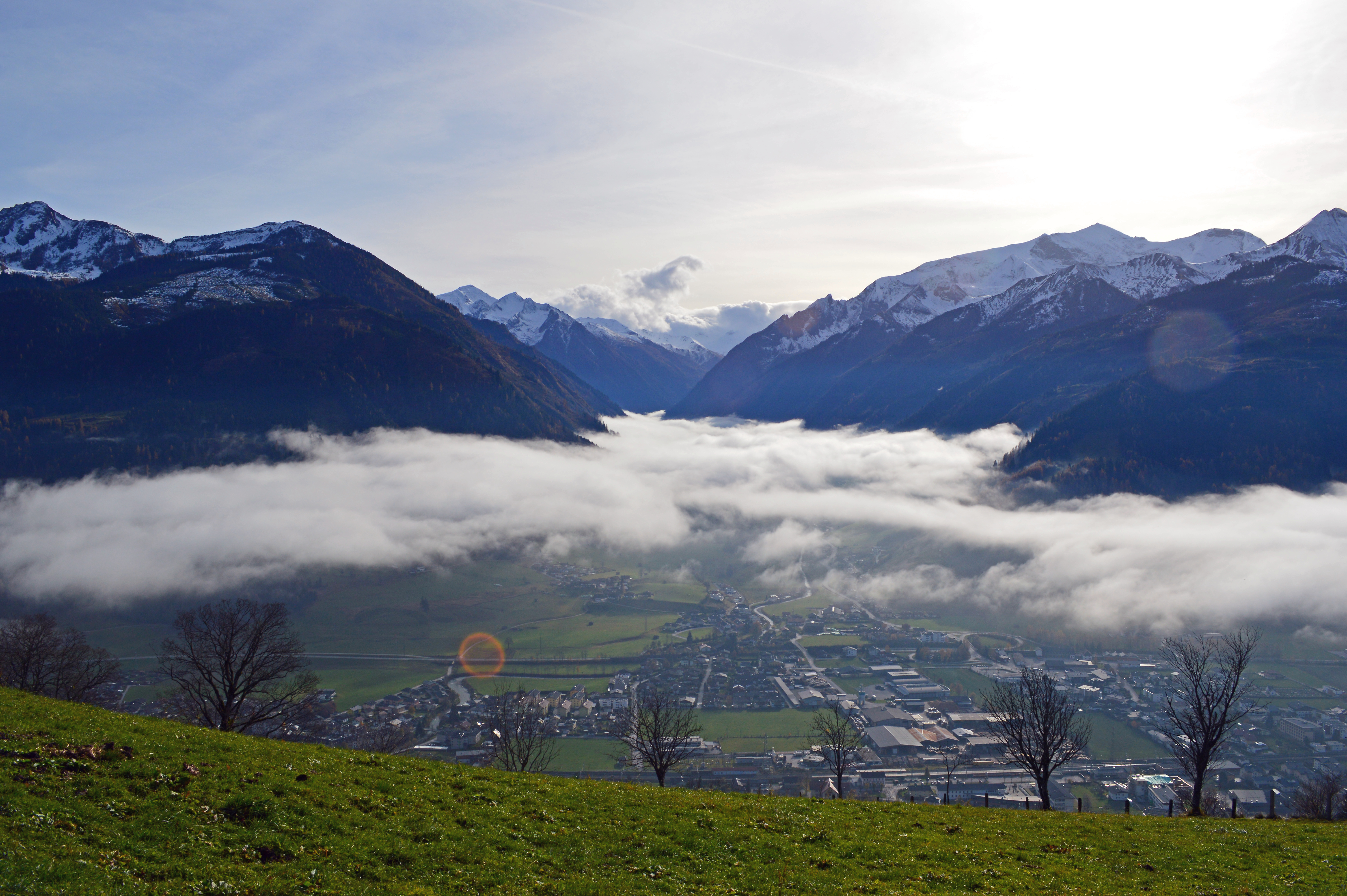 Fog above the Fusch valley, Fusch an der Großglocknerstraße, Hohe Tauern, Salzburg (state), Austria. In the front of the picture Bruck an der Großglocknerstraße.